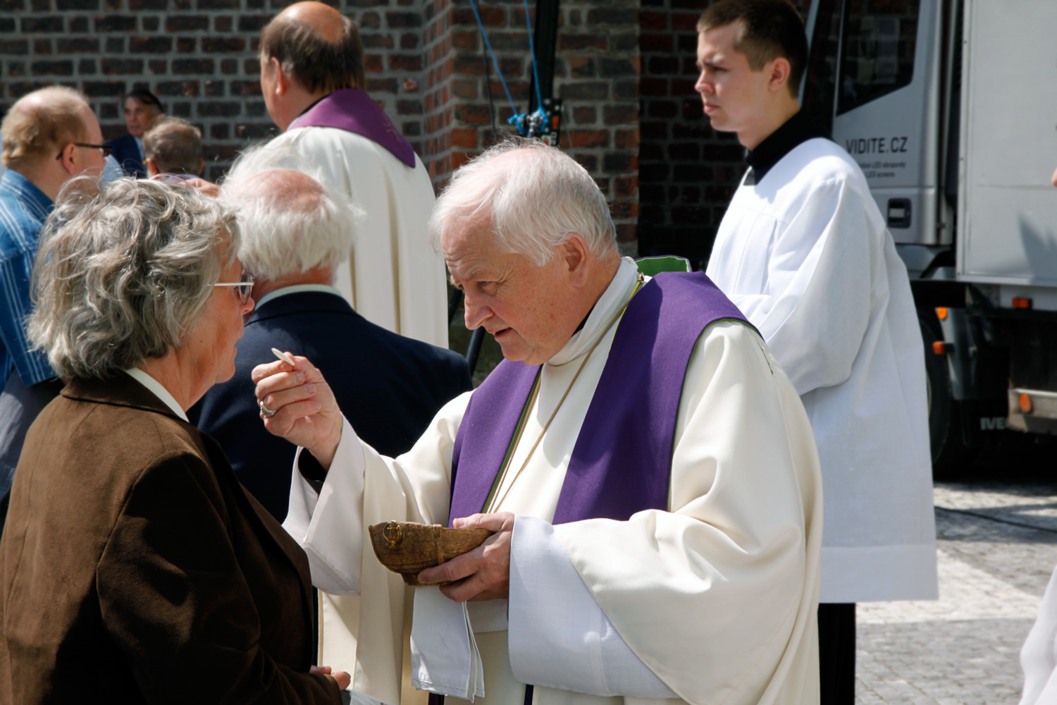 Karel Herbst